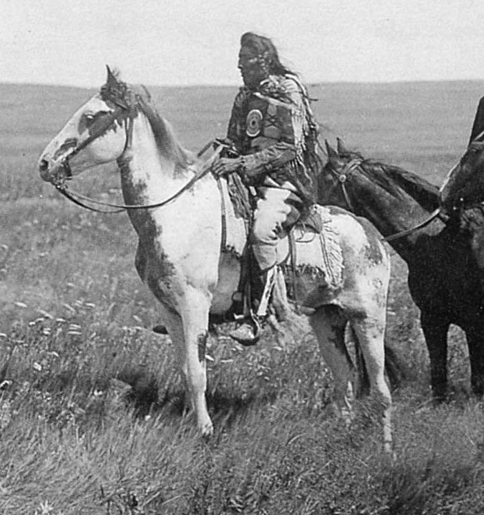 Close-up of Piegan (Blackfeet) chief — on a frame Overo horse, 1900.